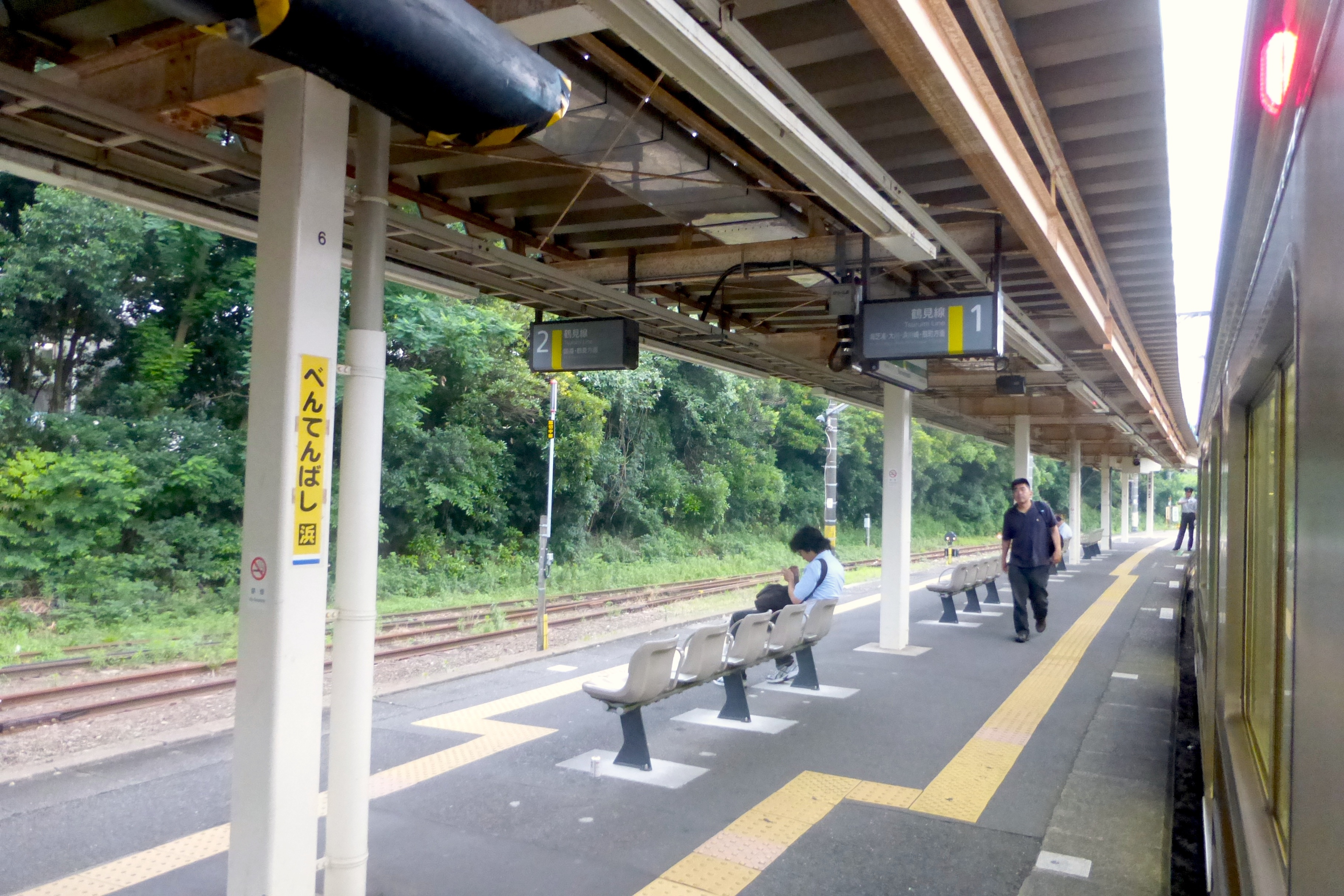 Bentenbashi Station platforms (弁天橋駅のホーム)